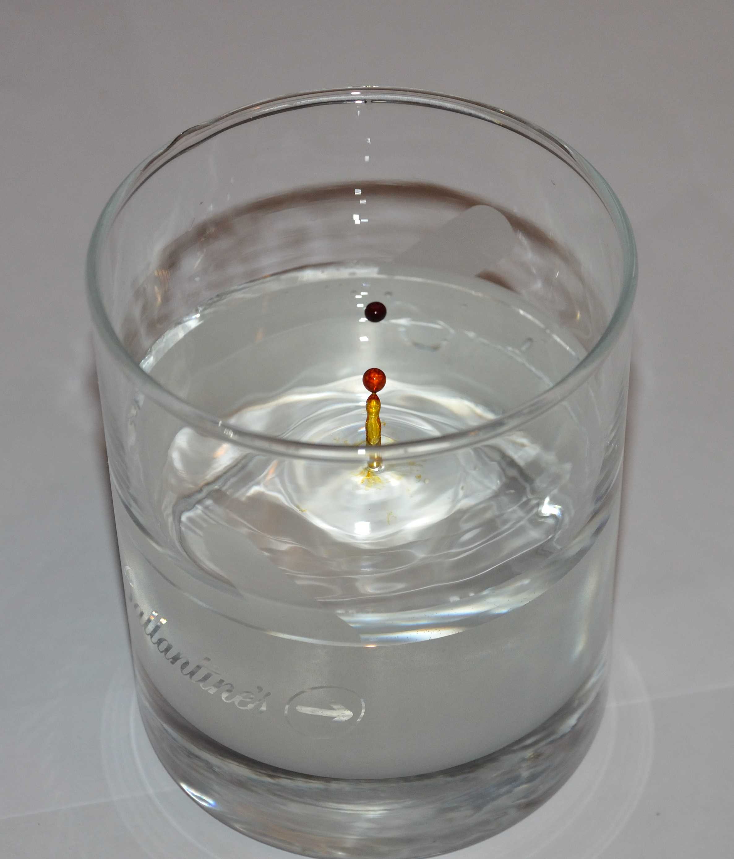 Backjet of a coloured droplet in a glass.